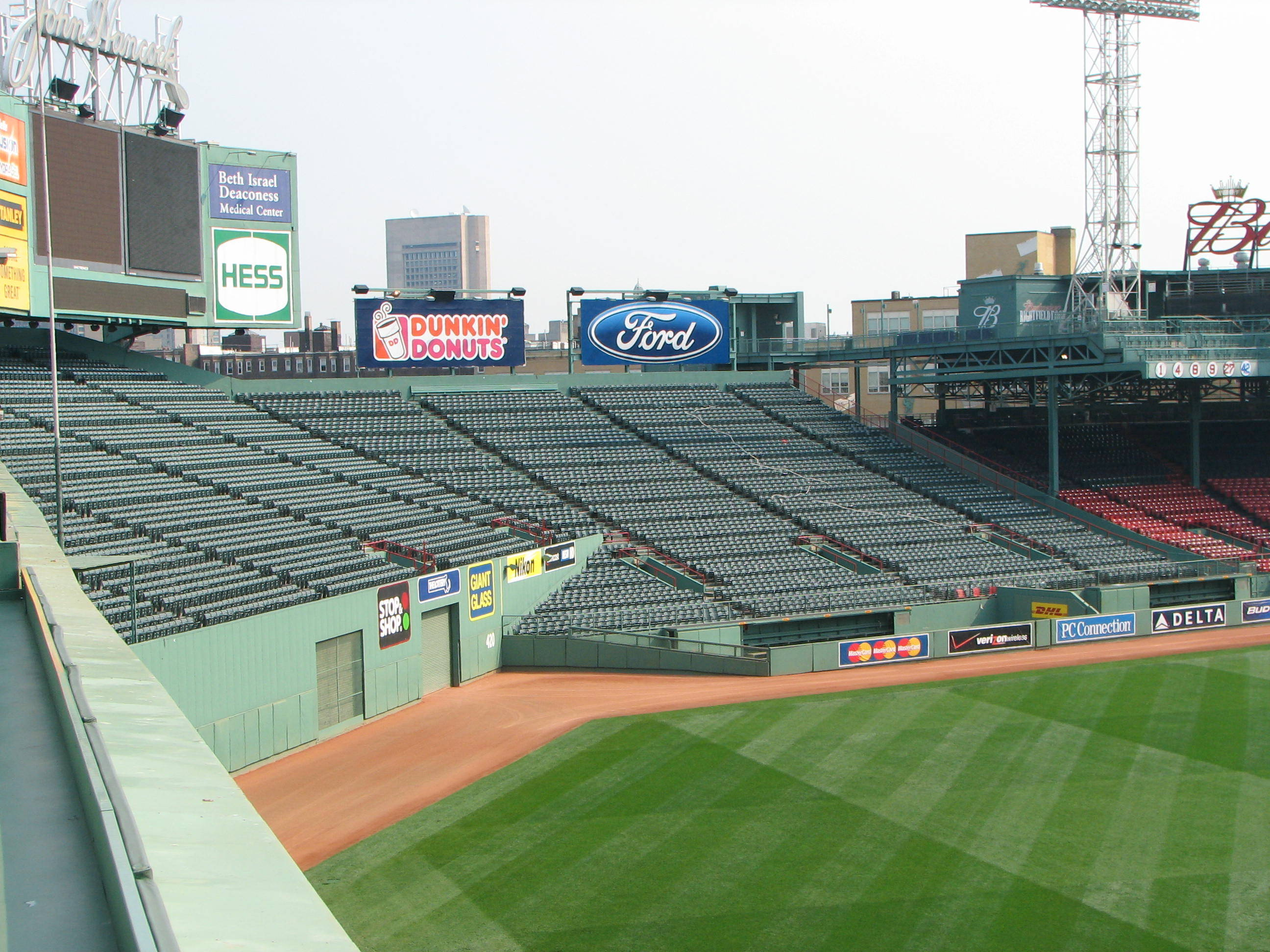 Fenway Park center field, Boston, Massachusetts, USA